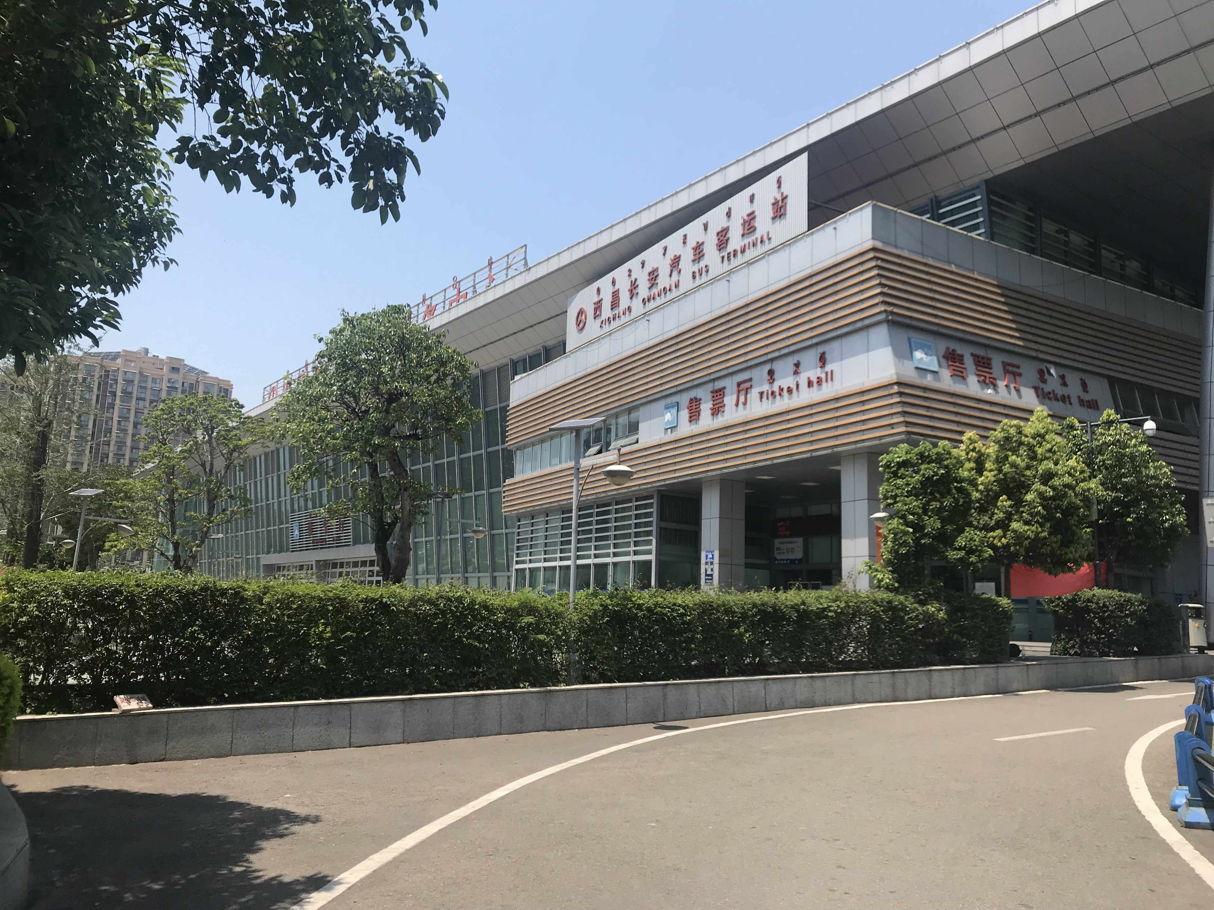 Had to take the bus in order to get out from Liangshan